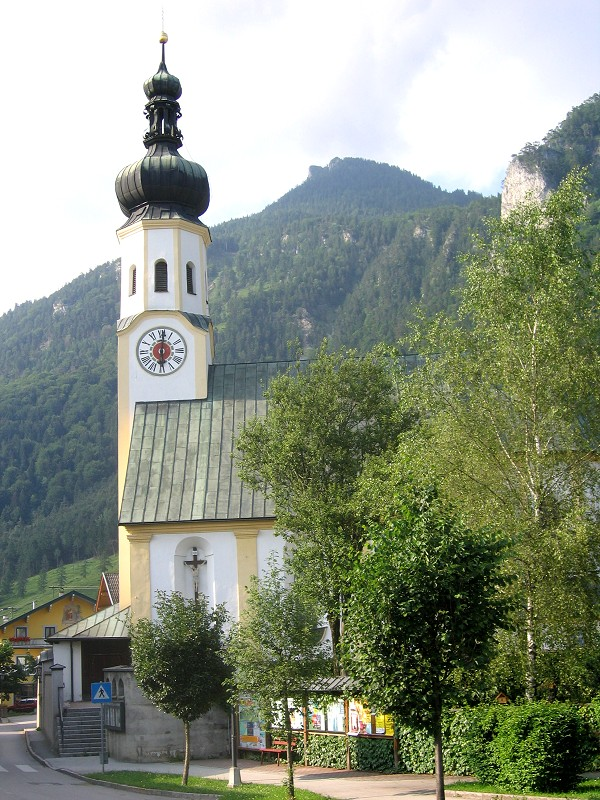 Erl (Tyrol), St Andrew's Parish Church from south with Kranzhorn in background.